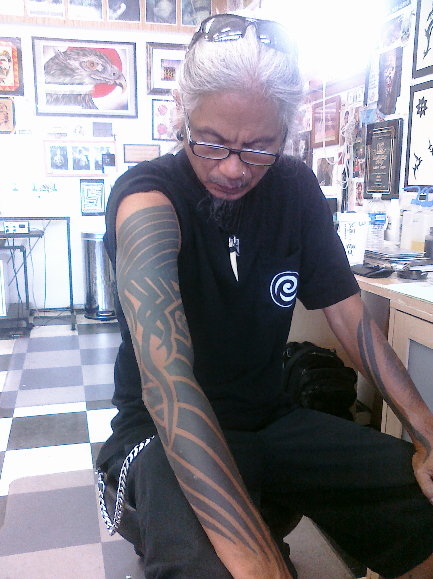 Leo Zulueta at Spiral Tattoo. Ann Arbor, Michigan, August 2011. Photo by Joann Natalia Aquino.